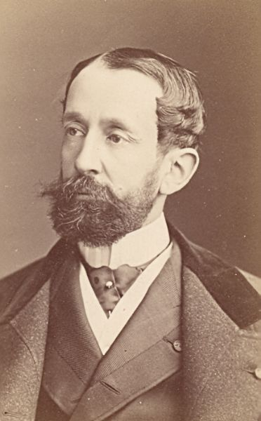 French politician and diplomat, 2nd French Delegate at the Congress of Berlin Size (in.) : about 2.5x4 Place : France, Paris Photographer/Credit: TRUCHELUT (Besancon) Besancon, France Seul représentant pour le département du Doubs du Panthèon de l'Ordre Impèrial de la légion d'honneur Vintage Truchelut Studio Photo, address on reverse.